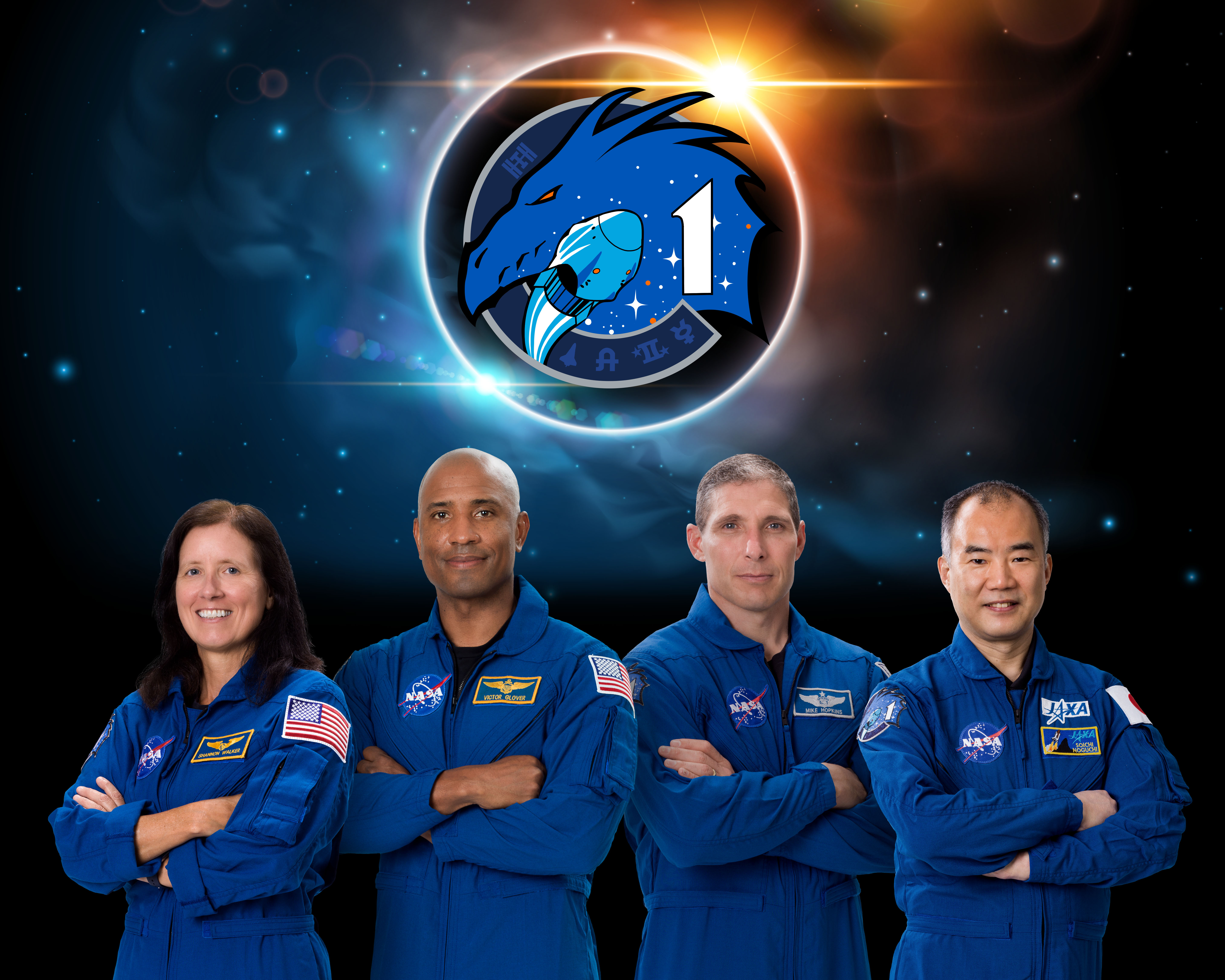 SpaceX Crew-1 Commercial Crew Portrait The SpaceX Crew-1 official crew portrait with (from left) NASA astronauts Shannon Walker, Victor Glover, Mike Hopkins, and JAXA (Japan Aerospace Exploration Agency) astronaut Soichi Noguchi.